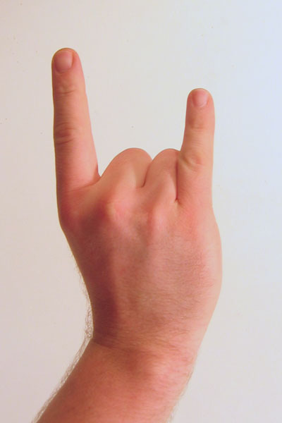 (del) (cur) 05:56, 12 December 2005 . . Night Gyr (Talk) . . 400x600 (21,803 bytes) (Reverted to earlier revision) (del) (rev) 20:09, 23 July 2005 . . Moogle516 (Talk) . . 384x294 (70,930 bytes) (del) (rev) 05:44, 19 January 2005 . . Jeremykemp (Talk) . . 400x600 (21,803 bytes) (gesture_raised_fist_with_index_and_pinky_lifted.jpg)